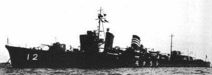 Sirakumo at anchor before the war (1932) This pre-1945 image is believed to be copyright-free, as it is a Japanese photograph older than 50 years. If copyright exists in this image, use here is asserted to be fair use. (See Image:Fubuki.jpg) Found at: ANPA - Imperial Navy's Photos